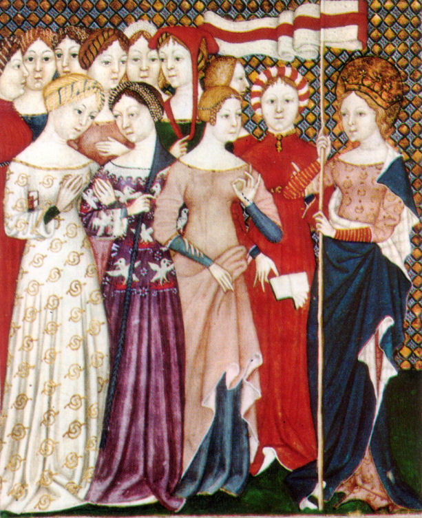 Illustration form an Italian breviary showing women's figured silk gowns and a saint. Bilbliothèque Nationale, Paris, ms lat. 757 f. 380v